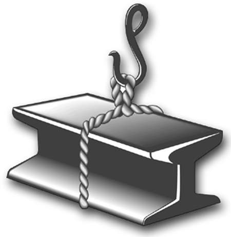 US Navy Steelworker (SW). An I-beam suspended from a hook; open side of hook to the front.